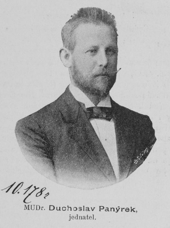 Portrait of Duchoslav Panýrek (1867 - 1940), Czech surgeon. In 1896, he was a board member of public health group within 2nd international pharmaceutical exhibition in Prague.